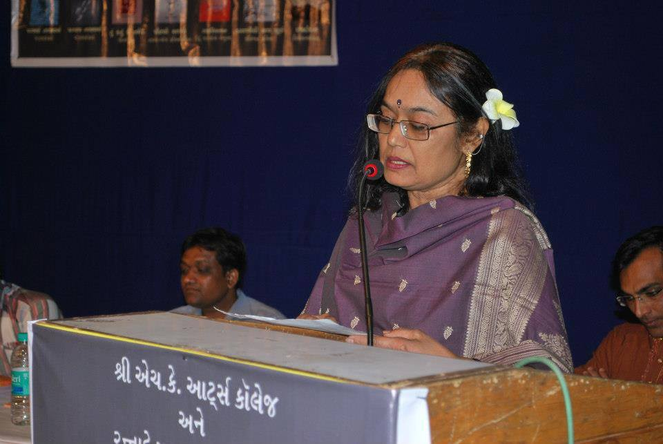 Priti Sengupta at H.K Arts College, Ahmedabad on 22 February 2013 on the event of book launching of poet Ashok Chavda